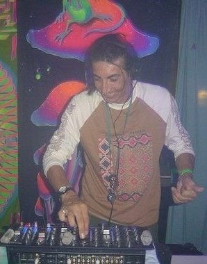 New Zealand